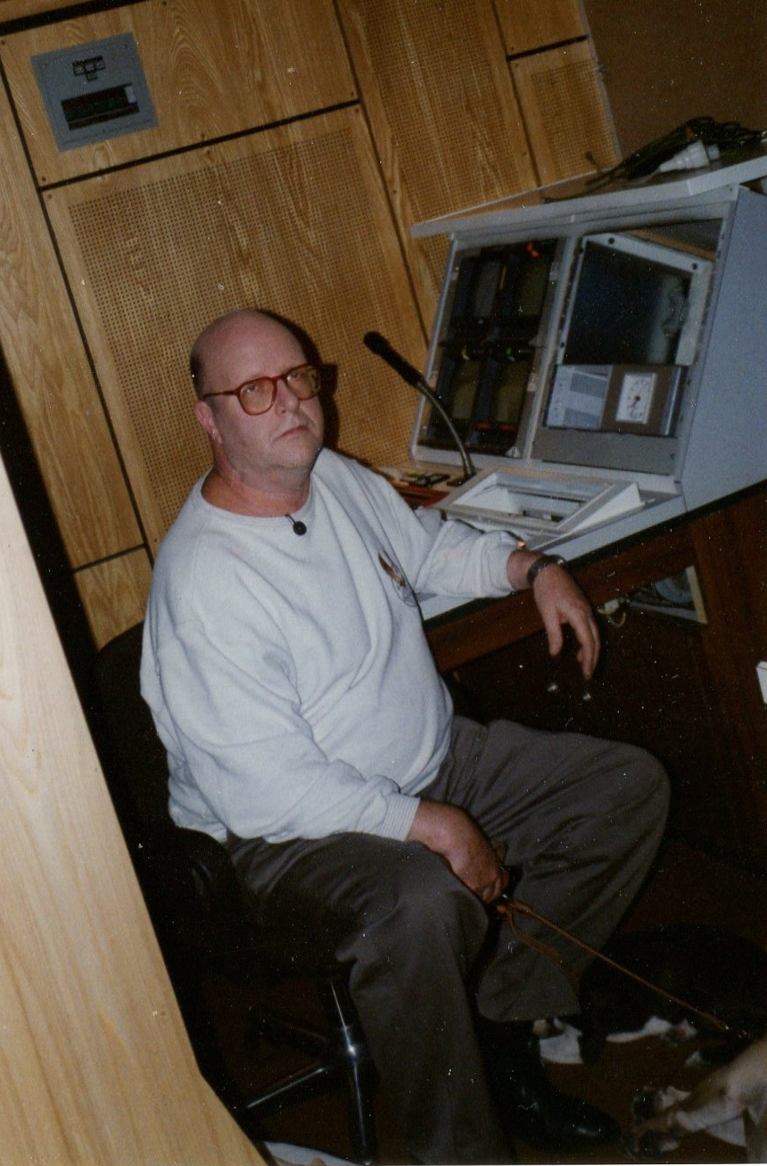 Actor Gert Haucke